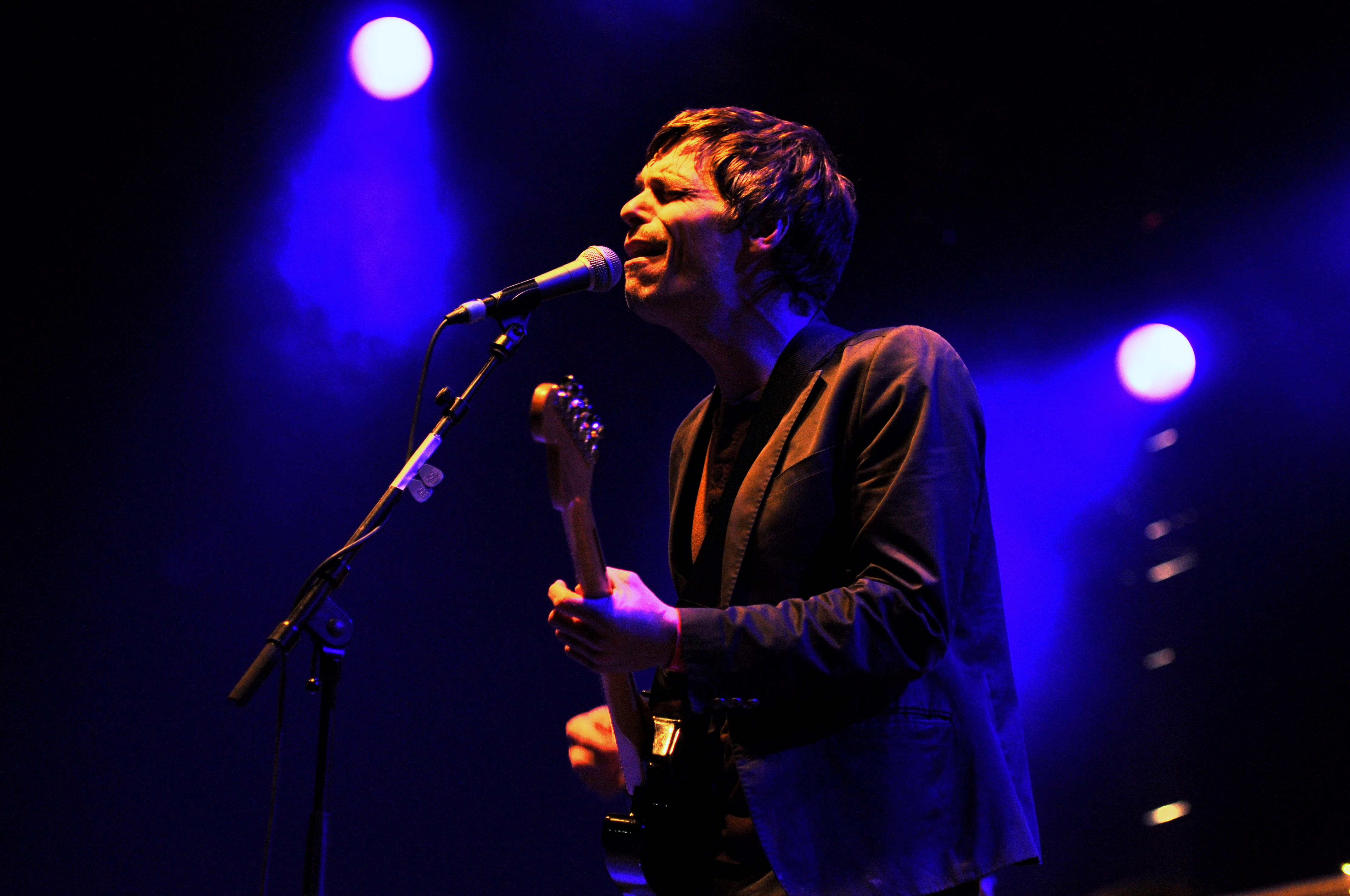 Texas is the Reason at Groezrock 2013